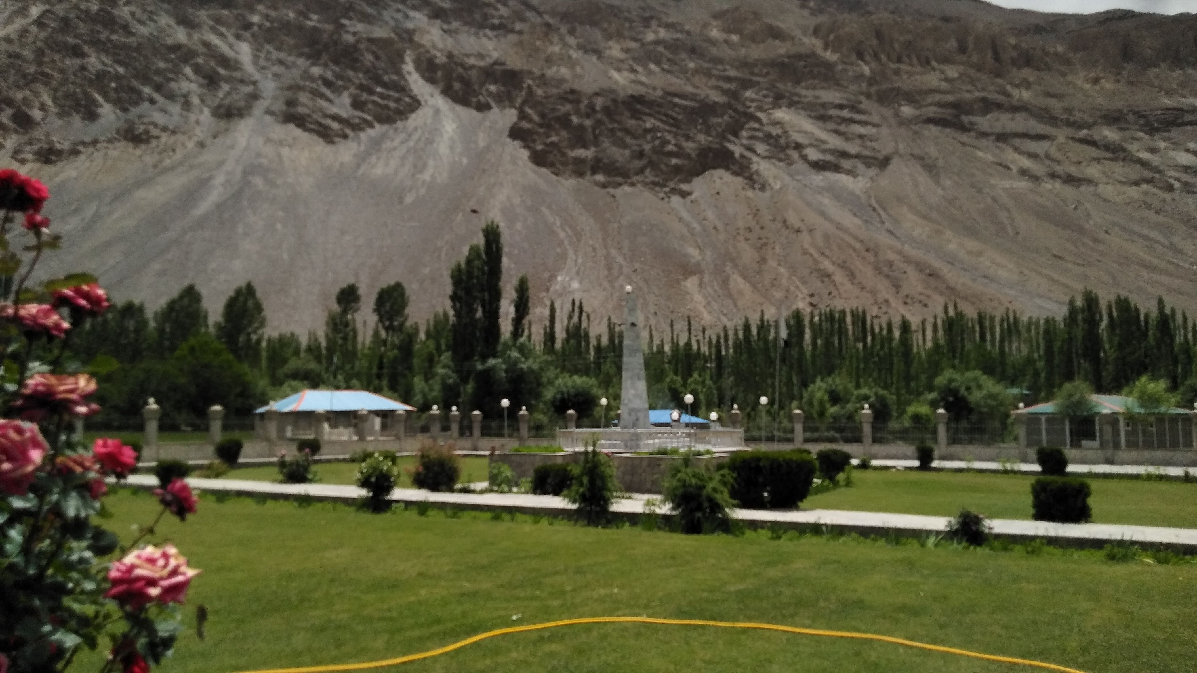 Lalak Jan Memorial at Yasin Valley